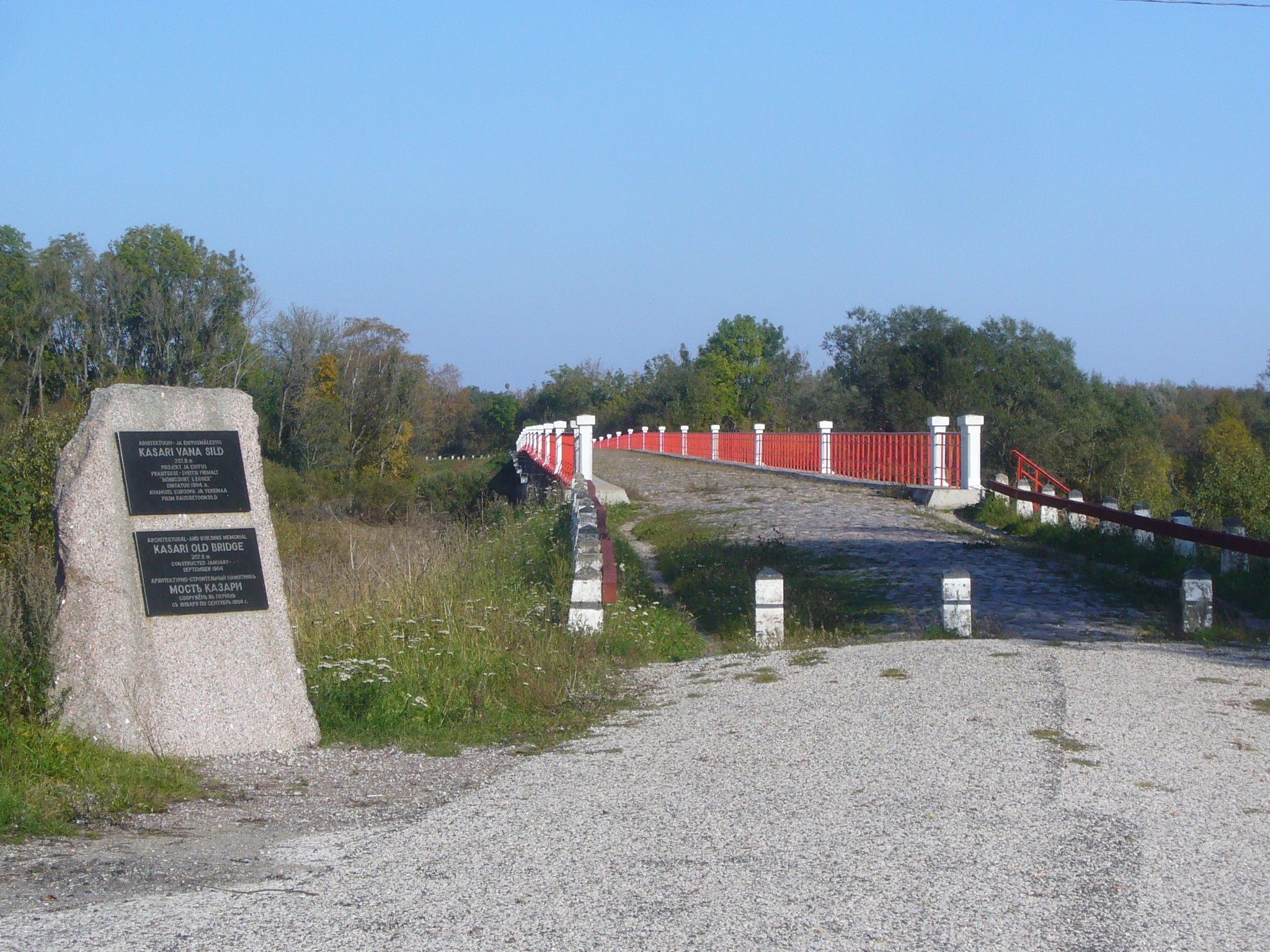 Kasari old bridge. View from south-west. Lääne county, Estonia.